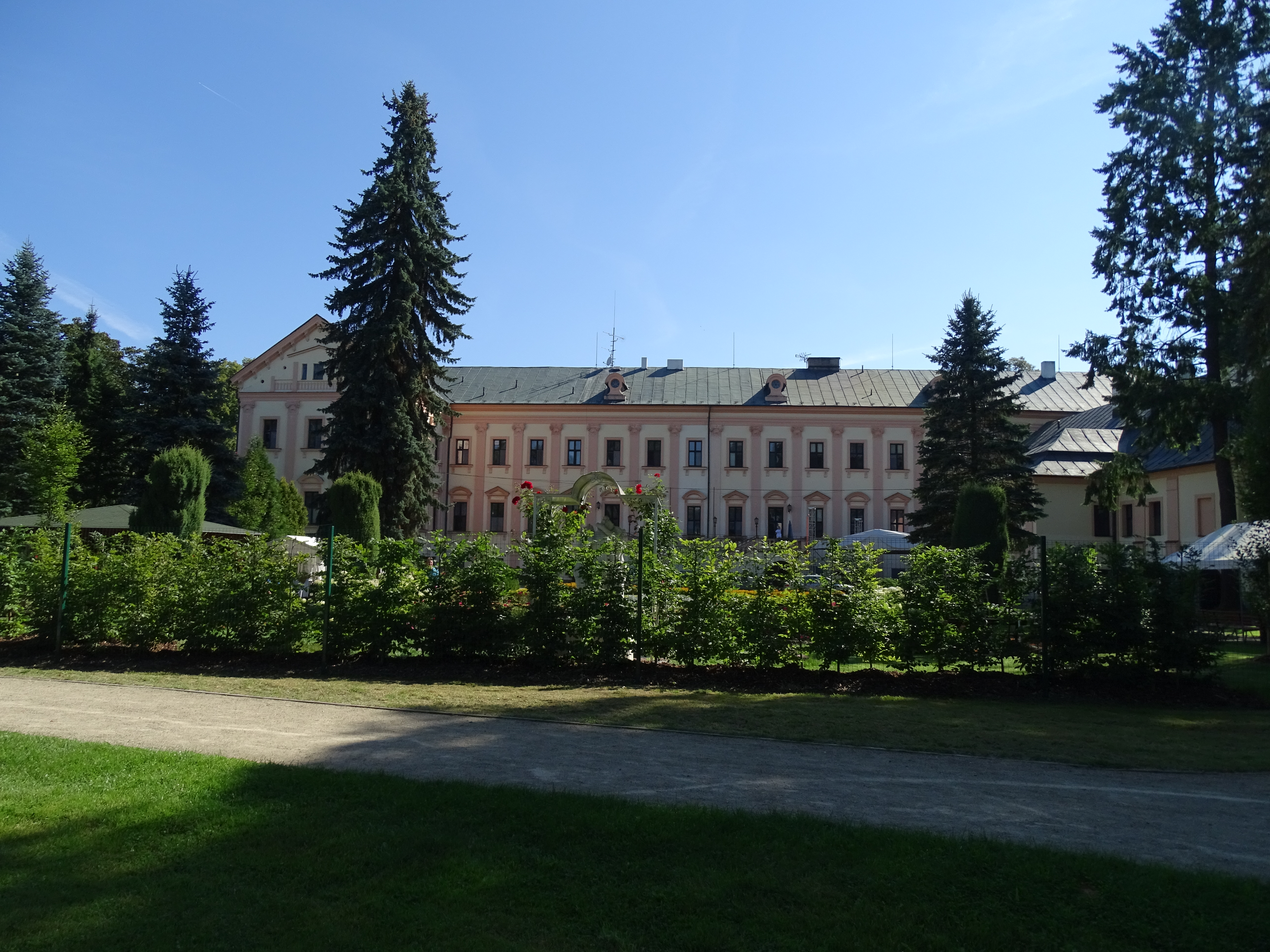 Liblín, Rokycany District, Plzeň Region, Czechia. The main building of the chateau.